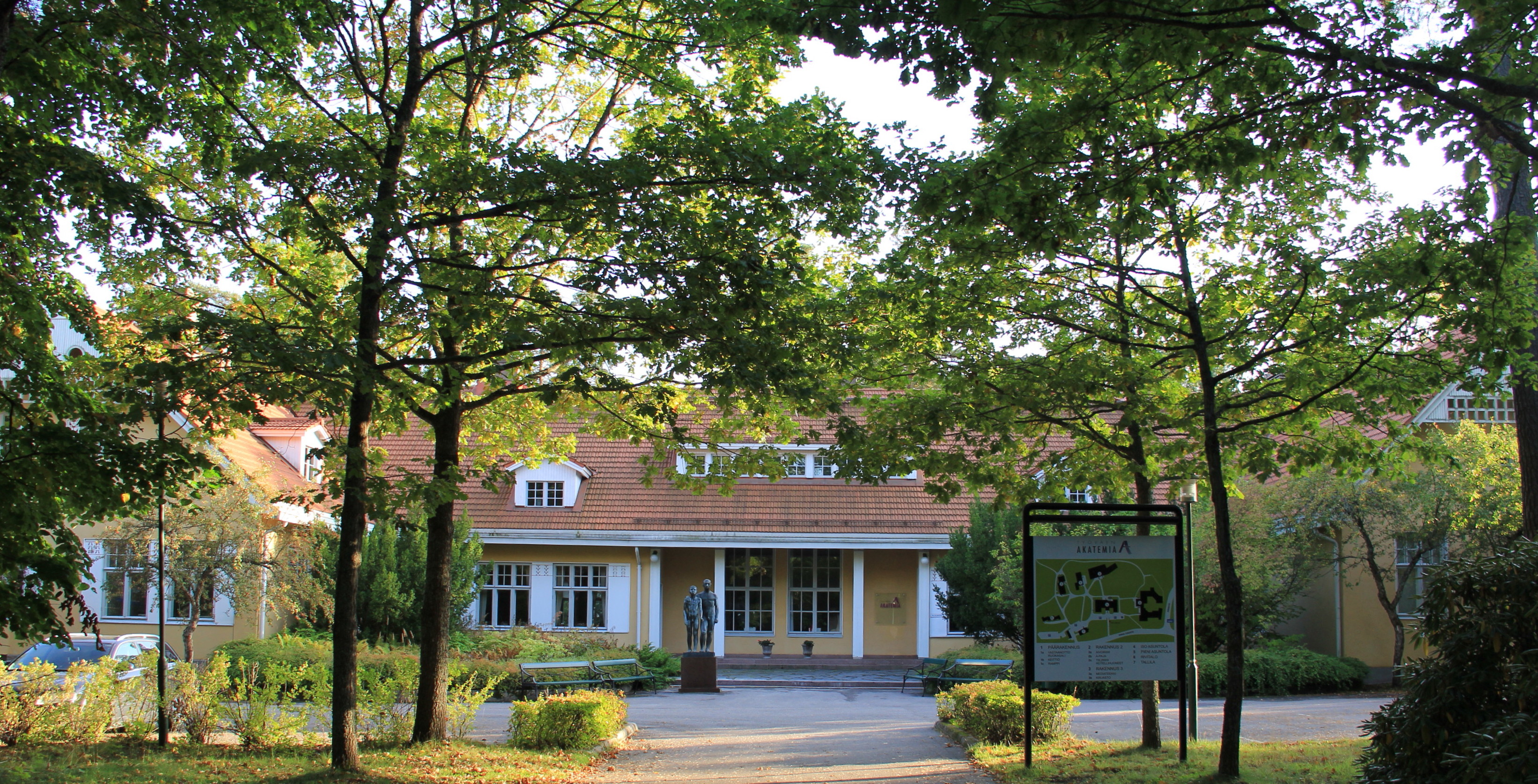 Työväen Akatemia, Kauniainen, Finland. - Main building seen from north. The statue is Valoa kohti ("Towards the light") by Aimo Tukiainen (1949).